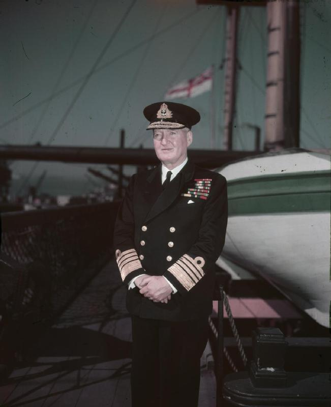 Admiral Sir Bruce Fraser, Gcb, Kbe Portrait of Admiral Sir Bruce Fraser. Admiral Fraser served as Commander in Chief Eastern Fleet from 1944 and signed the Japanese Terms of Surrender on behalf of Britain on 2 September 1945.